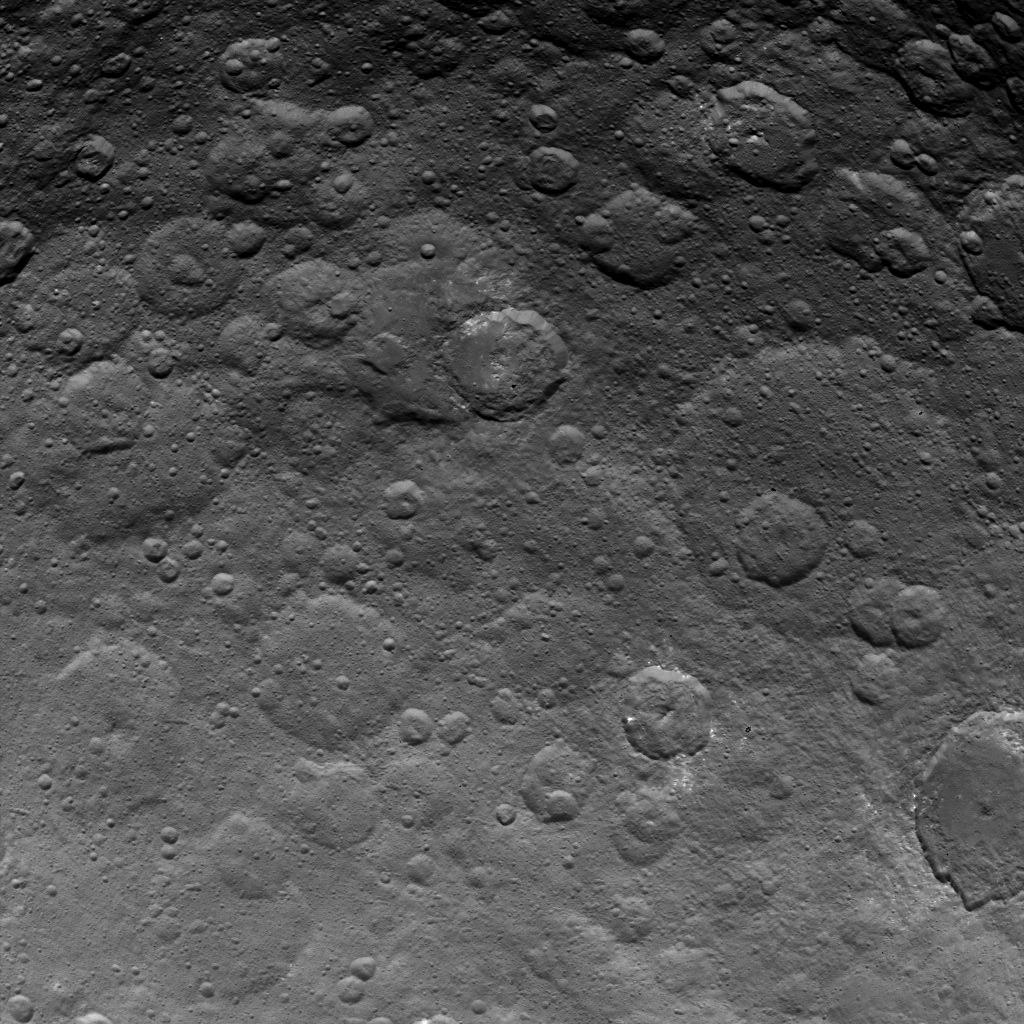 PIA19599: Dawn Survey Orbit Image 30 This image, taken by NASA's Dawn spacecraft, shows dwarf planet Ceres from an altitude of 2,700 miles (4,400 kilometers). The image, with a resolution of 1,400 feet (410 meters) per pixel, was taken on June 24, 2015. Dawn's mission is managed by JPL for NASA's Science Mission Directorate in Washington. Dawn is a project of the directorate's Discovery Program, managed by NASA's Marshall Space Flight Center in Huntsville, Alabama. UCLA is responsible for overall Dawn mission science. Orbital ATK, Inc., in Dulles, Virginia, designed and built the spacecraft. The German Aerospace Center, the Max Planck Institute for Solar System Research, the Italian Space Agency and the Italian National Astrophysical Institute are international partners on the mission team. For a complete list of acknowledgments, For more information about the Dawn mission, visit